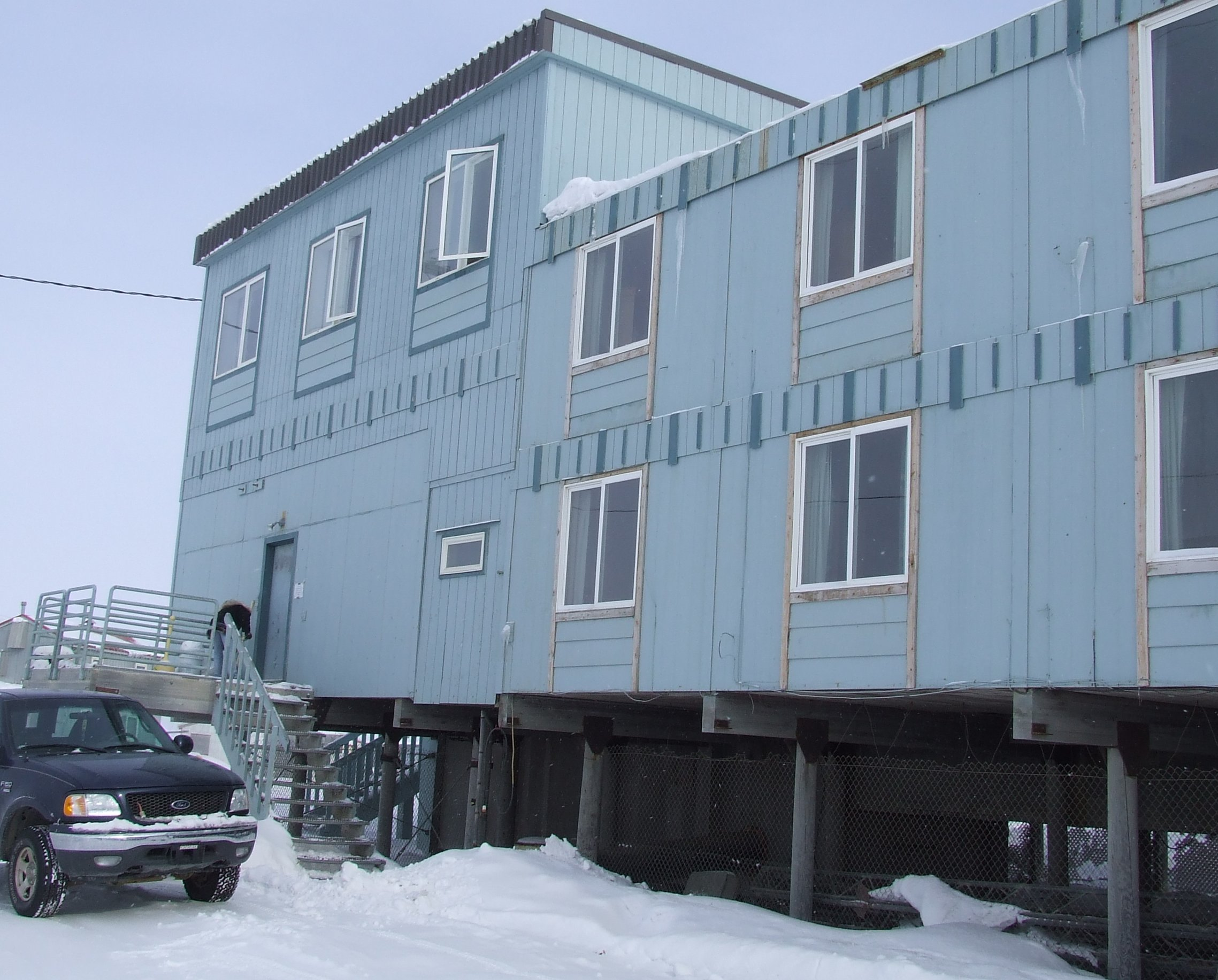 Building in Barrow Alaska constructed on frozen piles